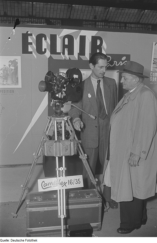 Original image description from the Deutsche Fotothek Messestand mit Filmkameras (Éclair)